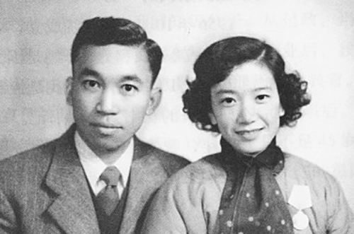 Liang Sili, a Chinese rocket and missile system control scientist, with his wife Mai Xiuqiong, in November 1956.